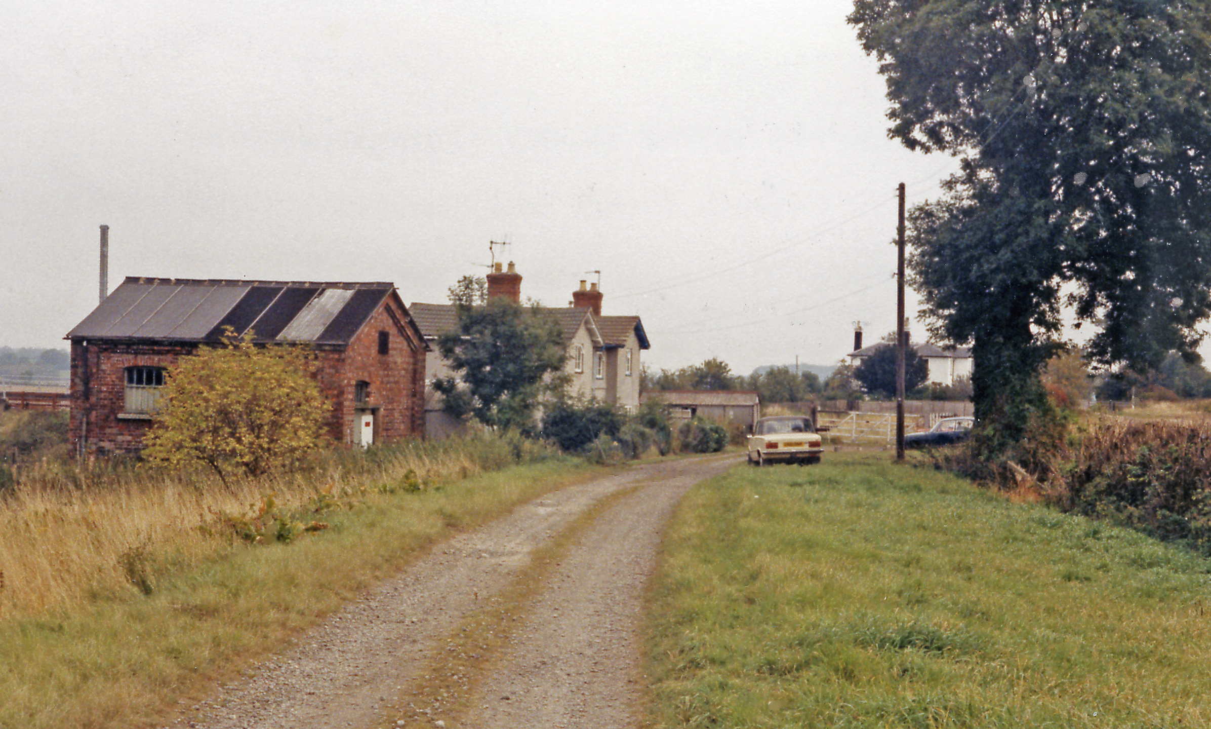 Site/remains of Corby Glen station, East Coast Main Line. View eastward on Old Station Road, approaching the level-crossing of the ECML, ex-GNR Peterborough - Grantham section. The station was called 'Corby (Lincs., LNE)' 3/5/37 - 16/6/47 and was closed 15/6/59 to passengers, 5/10/64 to goods.